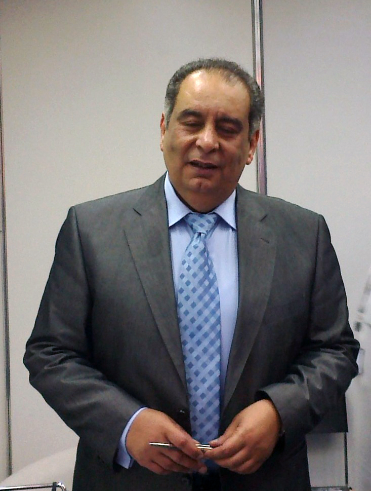 Writer and researcher Youssef Ziedan during book signing in Riyadh Book Fair 2011